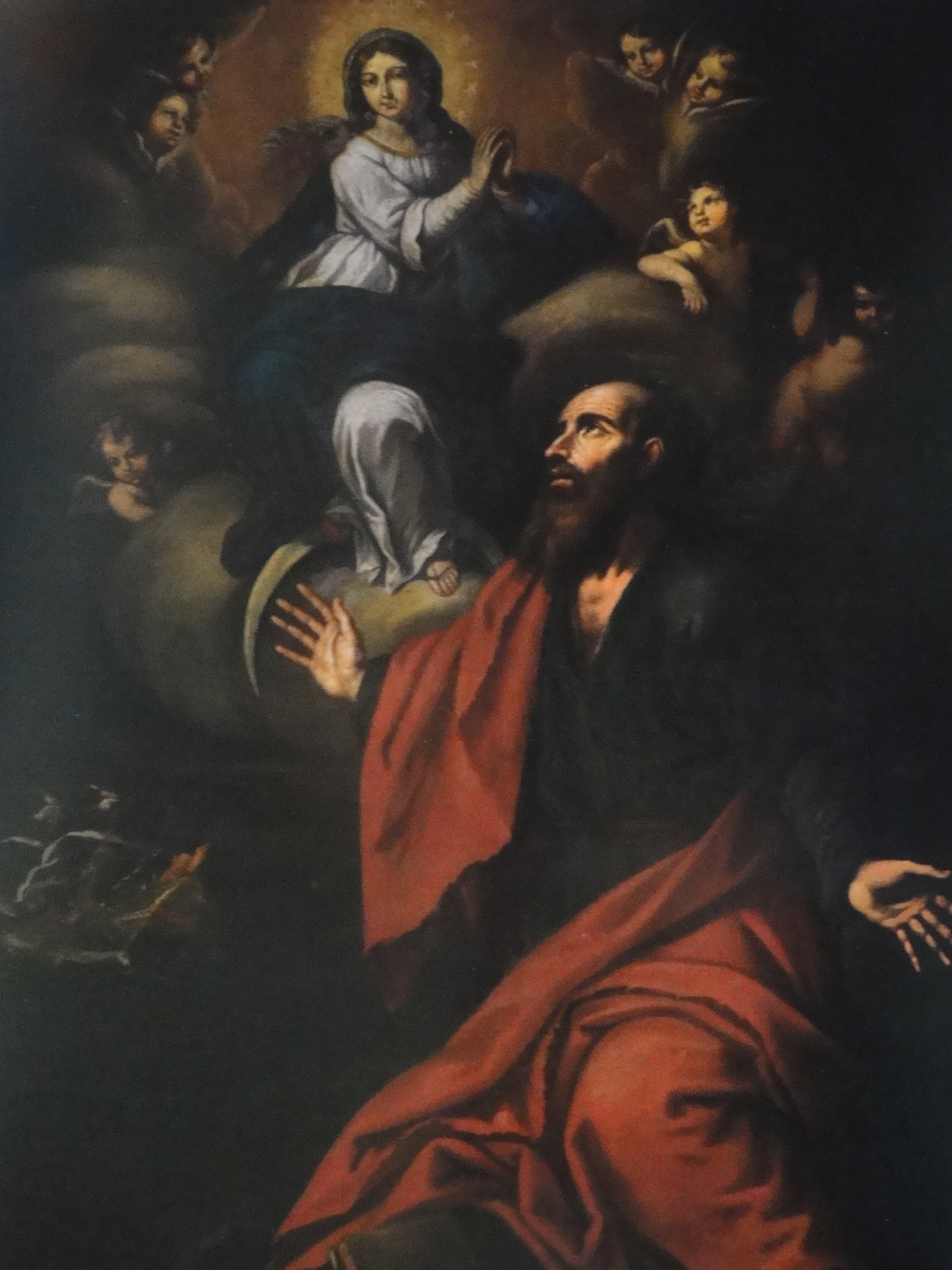 The Immaculate Conception with St Paul by Stefano Erardi 1699 (at St George's Basilica Victoria Malta).